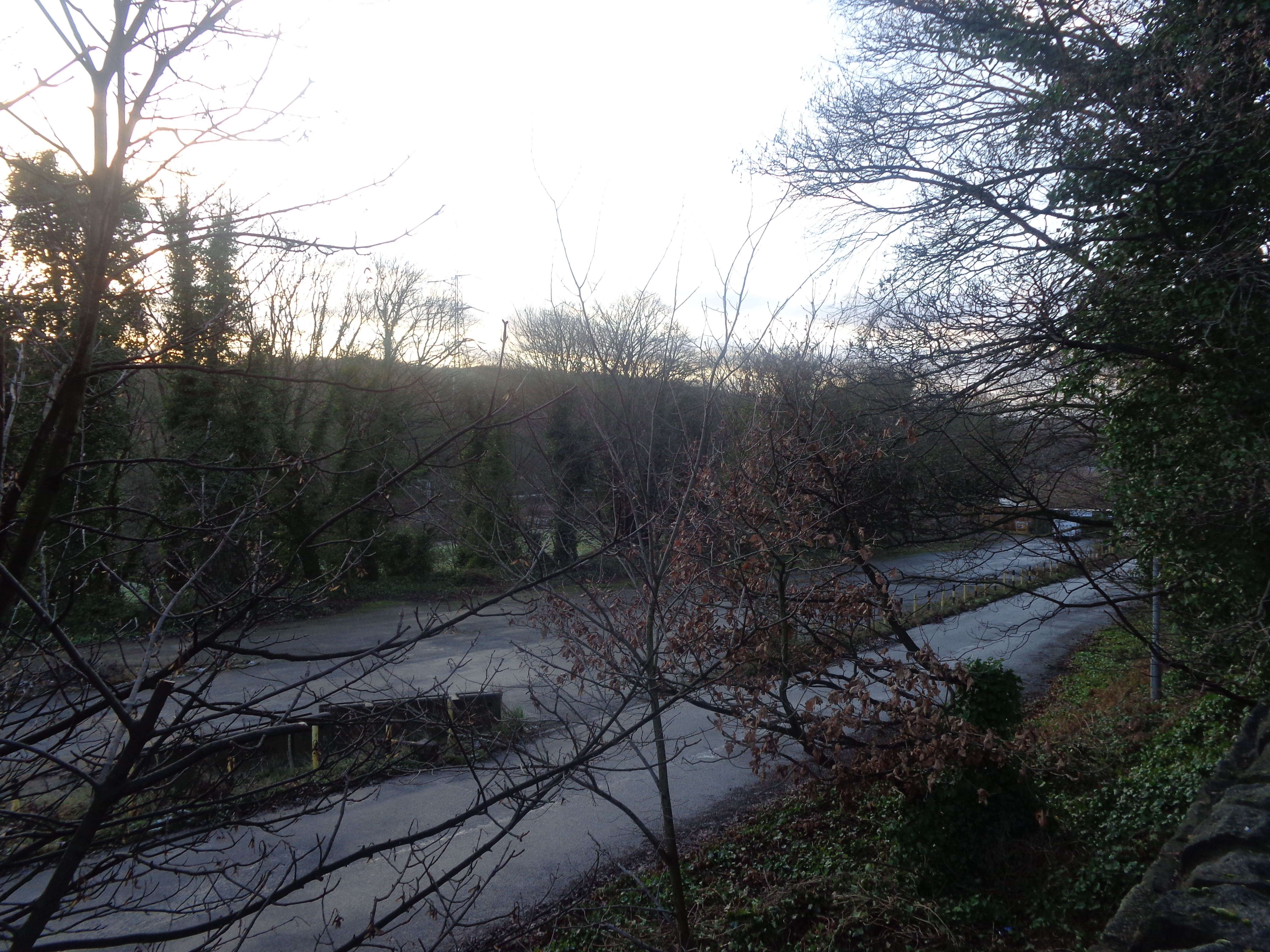 Site of the former Kirkstall Forge seen from Abbey Road in, Kirkstall, Leeds, West Yorkshire. Taken on the afternoon of Tuesday the 30th of December 2014.